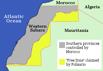 Improved PNG version of Image:SADR location.gif showing the location of the "Free Zone" claimed by the Sahrawi Arab Democratic Republic.